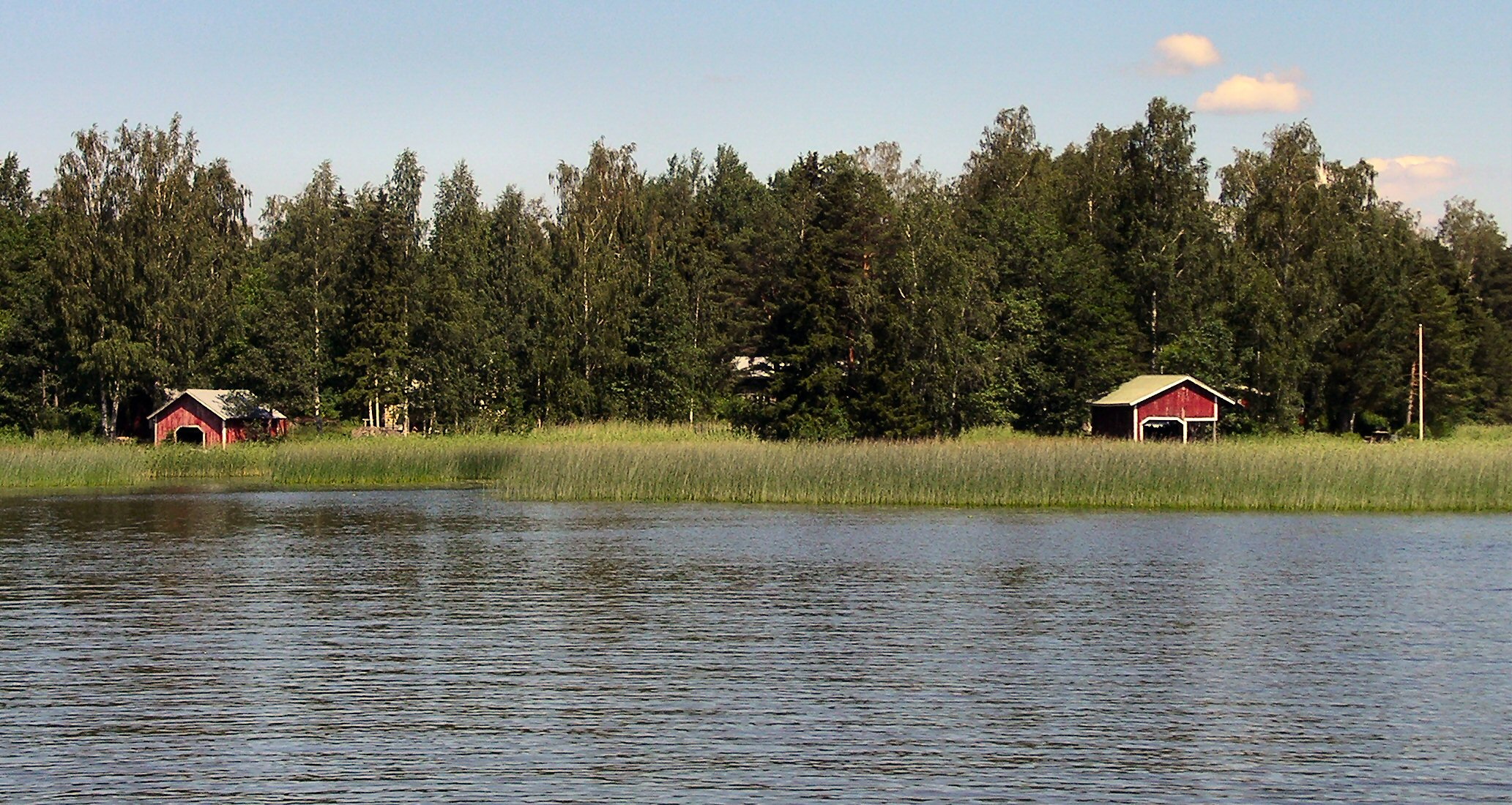 Kirksalmi (Kyrksundet) strait in Malm, Pyhtää, Finland